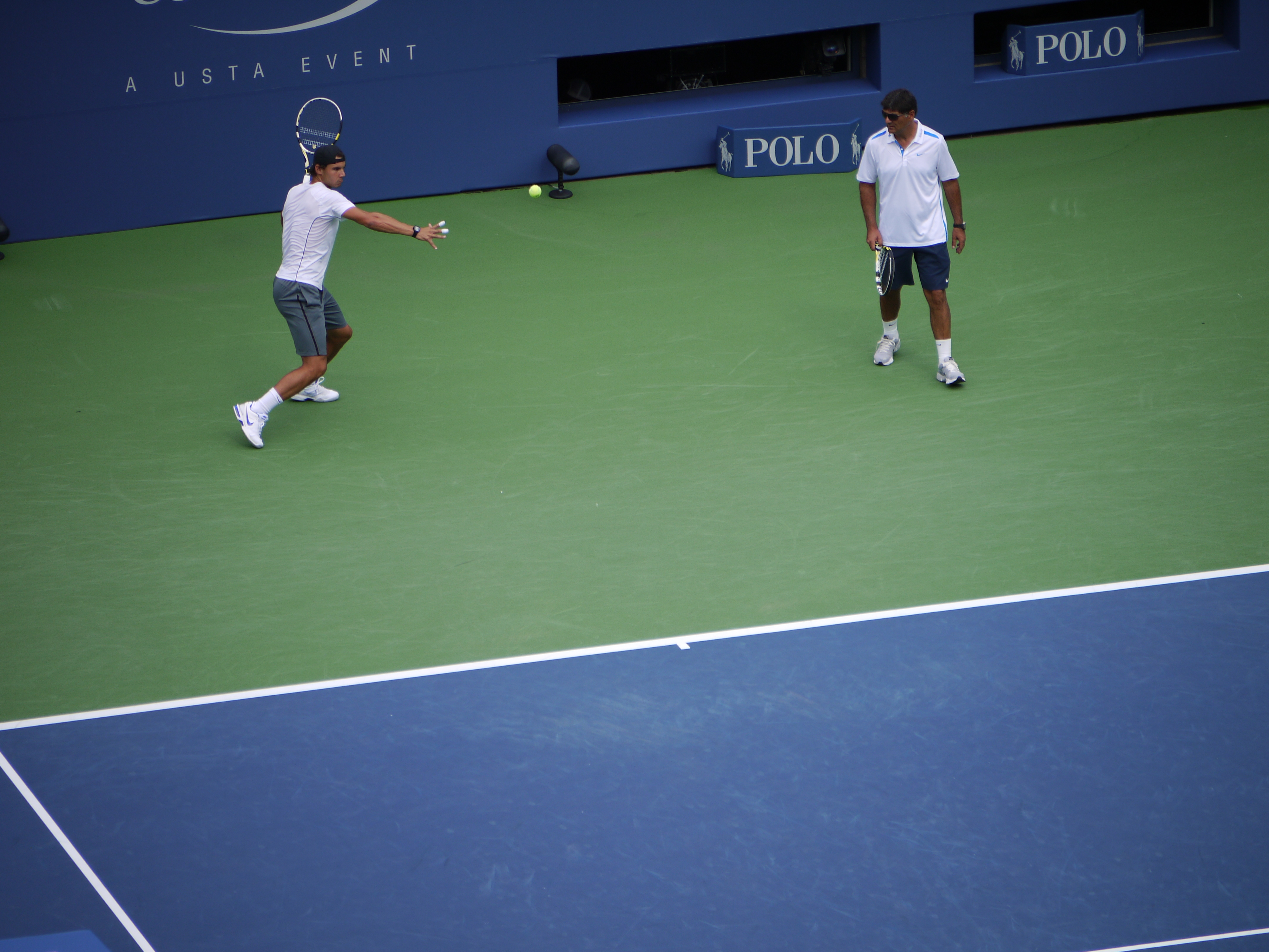 Rafael Nadal praticing with Uncle Toni before the matches start.